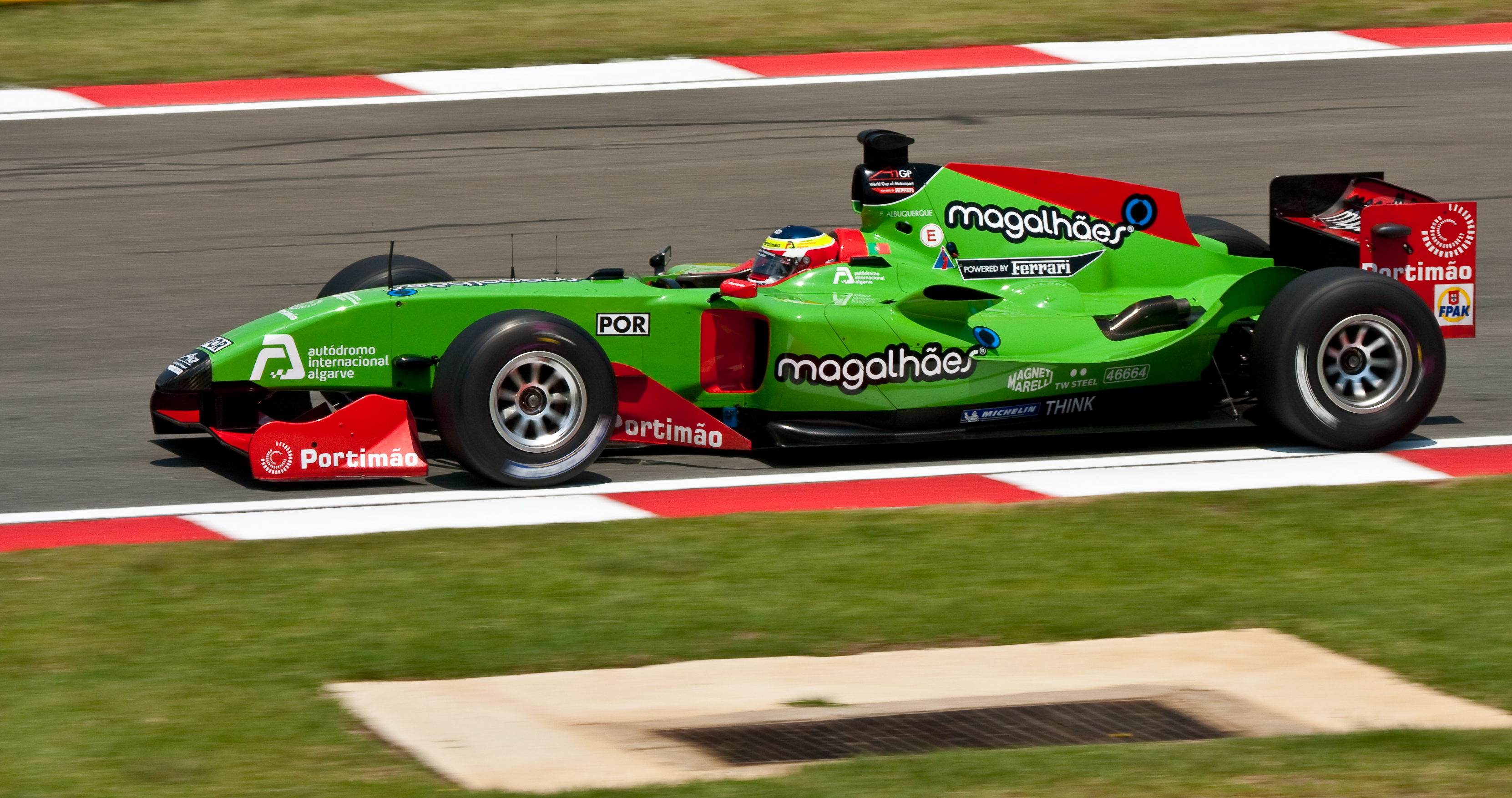 Team Portugal @ A1 Grand Prix Kyalami South Africa 2009